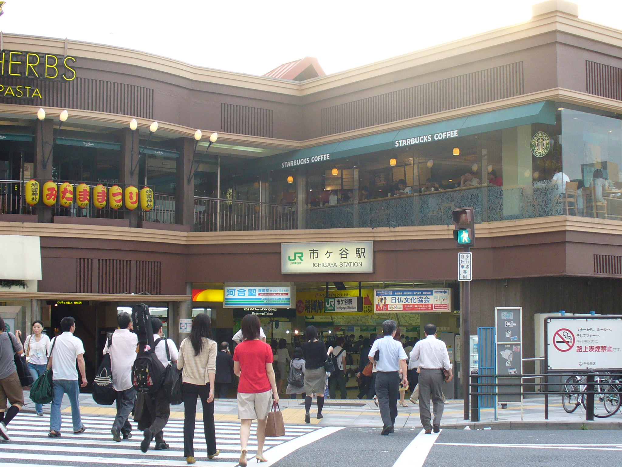 Exit of Ichigaya Station